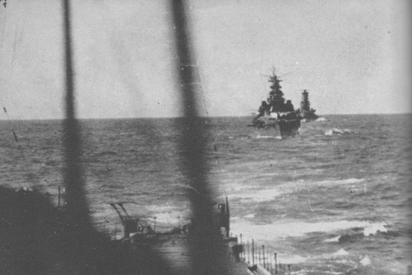 Imperial Japanese Navy warships under Vice Admiral Nobutake Kondo head for Guadalcanal to bombard Henderson Field on November 14, 1942. Photographed from heavy cruiser Atago. Battlecruiser Kirishima (background) is preceded in formation by heavy cruiser Takao (center). Kirishima was sunk in battle by the United States Navy battleship USS Washington hours after this photo was taken.